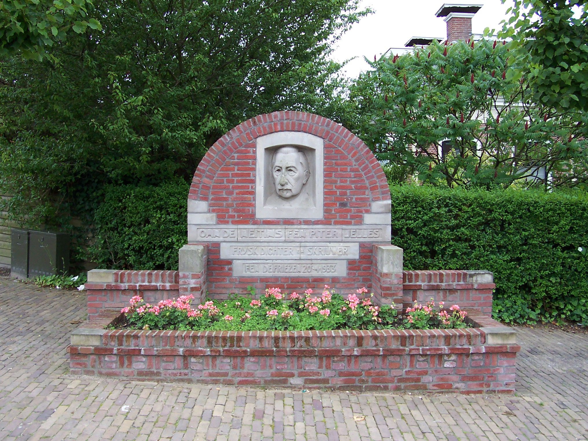 Stiens - Monument for Piter Jelles Troelstra, made by Tjipke Visser in 1933